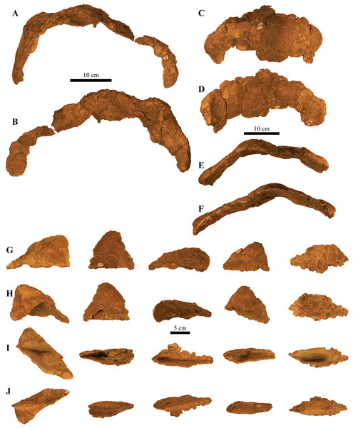 Photographs of postcranial osteoderms of Akainacephalus johnsoni (UMNH VP 20202). Nearly complete cervical half ring in (A), anterior; and (B), posterior views. Right lateral portion of the partial half ring in (C), dorsal; (D), ventral; (E), posterior; and (F), anterior views. Various sharply keeled, type 1 (pup-tent), osteoderms associated with UMNH VP 20202. The osteoderms are displayed in (G), dorsal; (H), ventral; (I), medial; and (J), lateral views. No consensus currently exists regarding the exact position of type 1 osteoderms, but they appear to be positioned either laterally on the body along the sacral and proximal portion of the tail or dorsolaterally along the thoracic and pectoral regions as seen in Euoplocephalus and Scolosaurus (Maryańska, 1977; Ford, 2000).